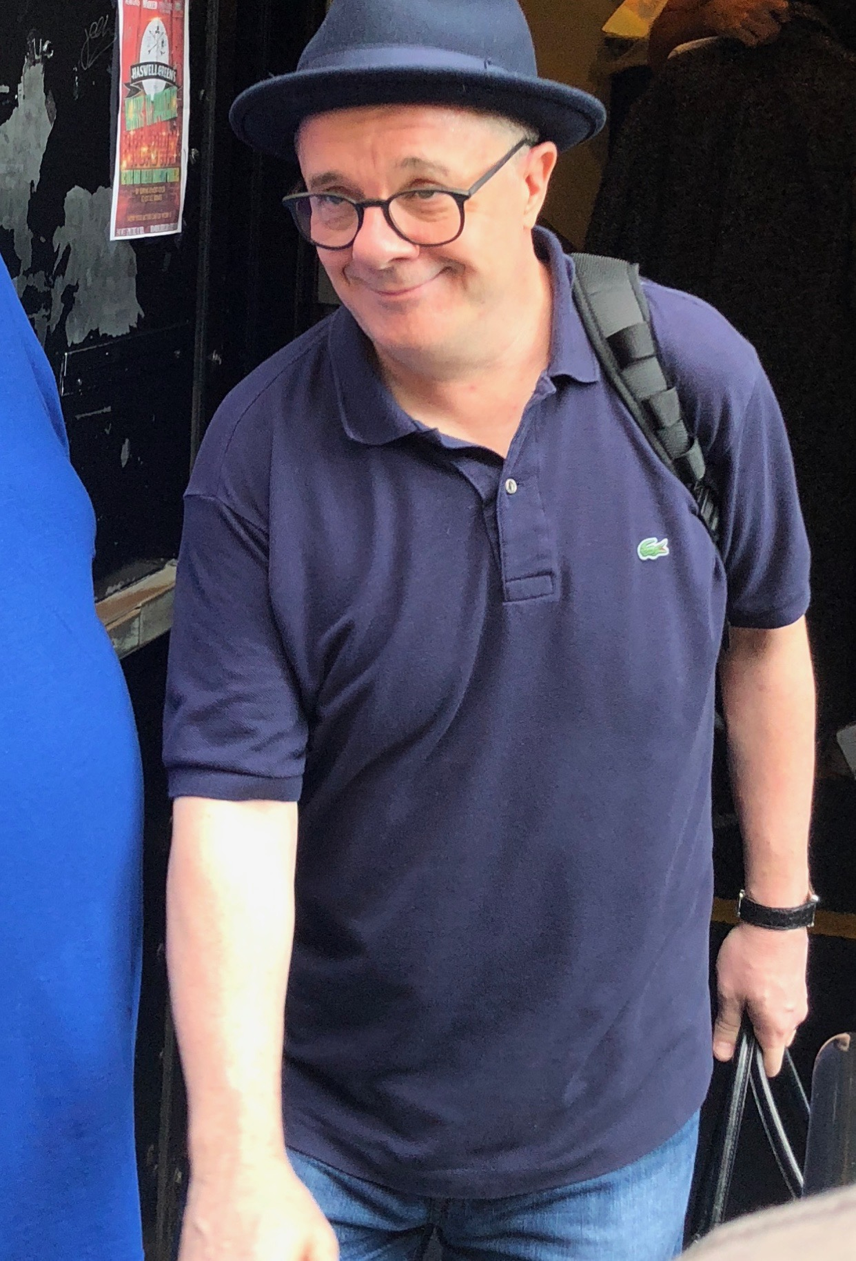 Nathan Lane after Angels in America